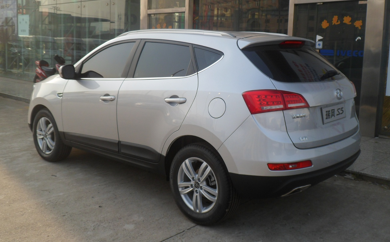 JAC Refine S5 photographed in Shanghai, China.